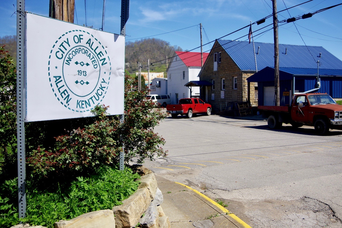 Sign along Main Street in Allen, Kentucky, United States.